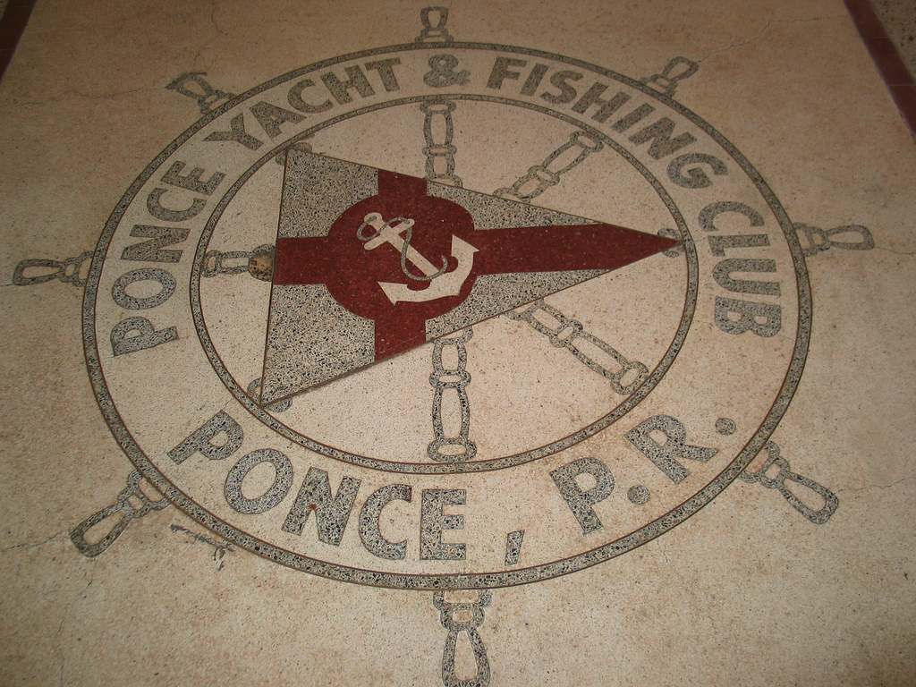 Logo of Club Nautico de Ponce, in Ponce, Puerto Rico